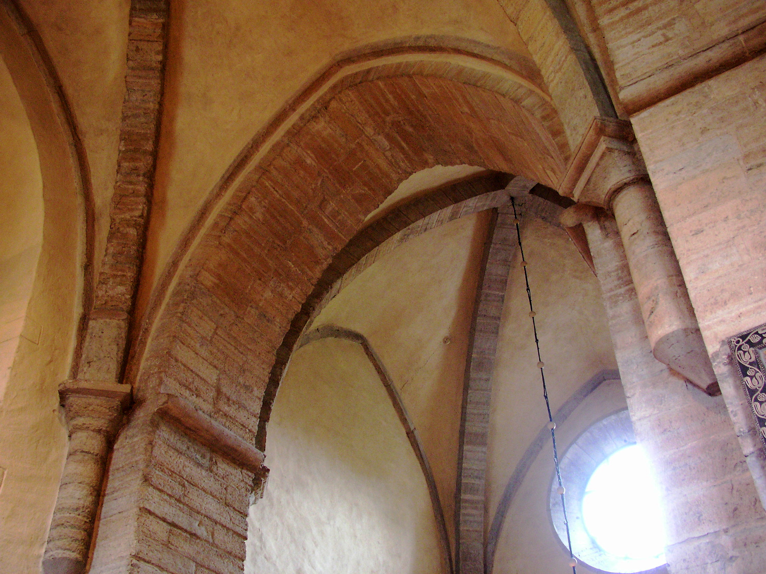 Vreta kloster kyrka. Vaults. The photo was taken by Håkan Svensson (Xauxa) the 28th September 2003.